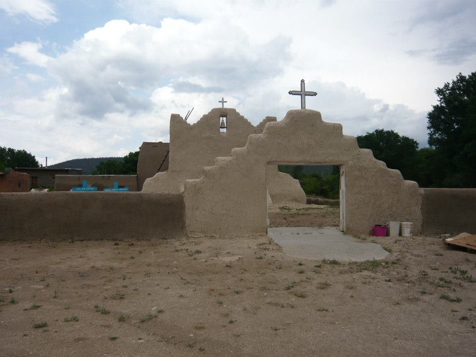 Picuris Pueblo, South of Taos Taos